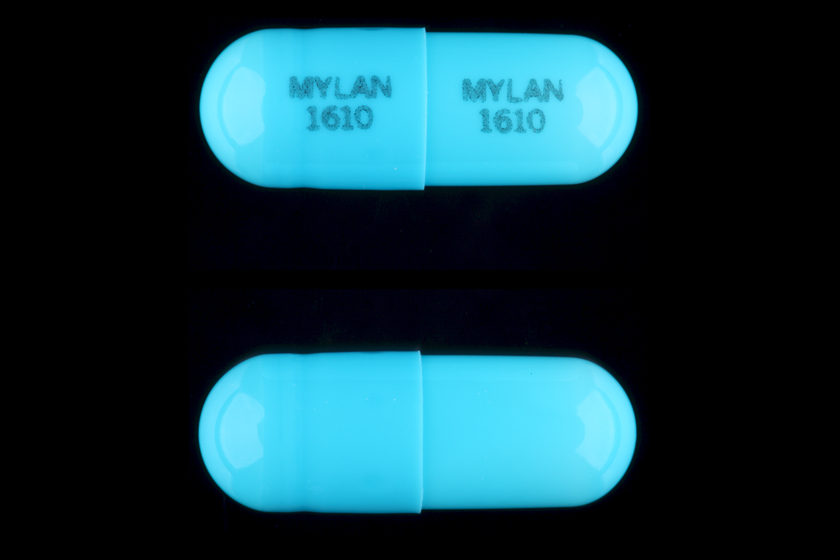 Drug Name: Dicyclomine Hydrochloride 10 MG Oral Capsule Ingredient(s): Dicyclomine Drug Label Imprint: MYLAN;1610 Color(s): Turqouise, Turqouise Shape: Capsule Size (mm): 14.00 Score: 1 Inactive Ingredient(s): ShowHide anhydrous lactose / silicon dioxide / d&c yellow n... anhydrous lactose / silicon dioxide / d&c yellow no. 10 / fd&c blue no. 1 / fd&c blue no. 1 / fd&c blue no. 2 / fd&c red no. 40 / gelatin / magnesium stearate / cellulose, microcrystalline / starch, corn / propylene glycol / sodium lauryl sulfate / ferrosoferric oxide / titanium dioxide Drug Label Author: Mylan Pharmaceuticals Inc. DEA Schedule: Non-scheduled